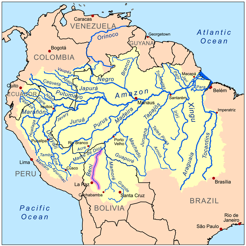 This is a map of the Amazon River drainage basin with the Beni River highlighted.